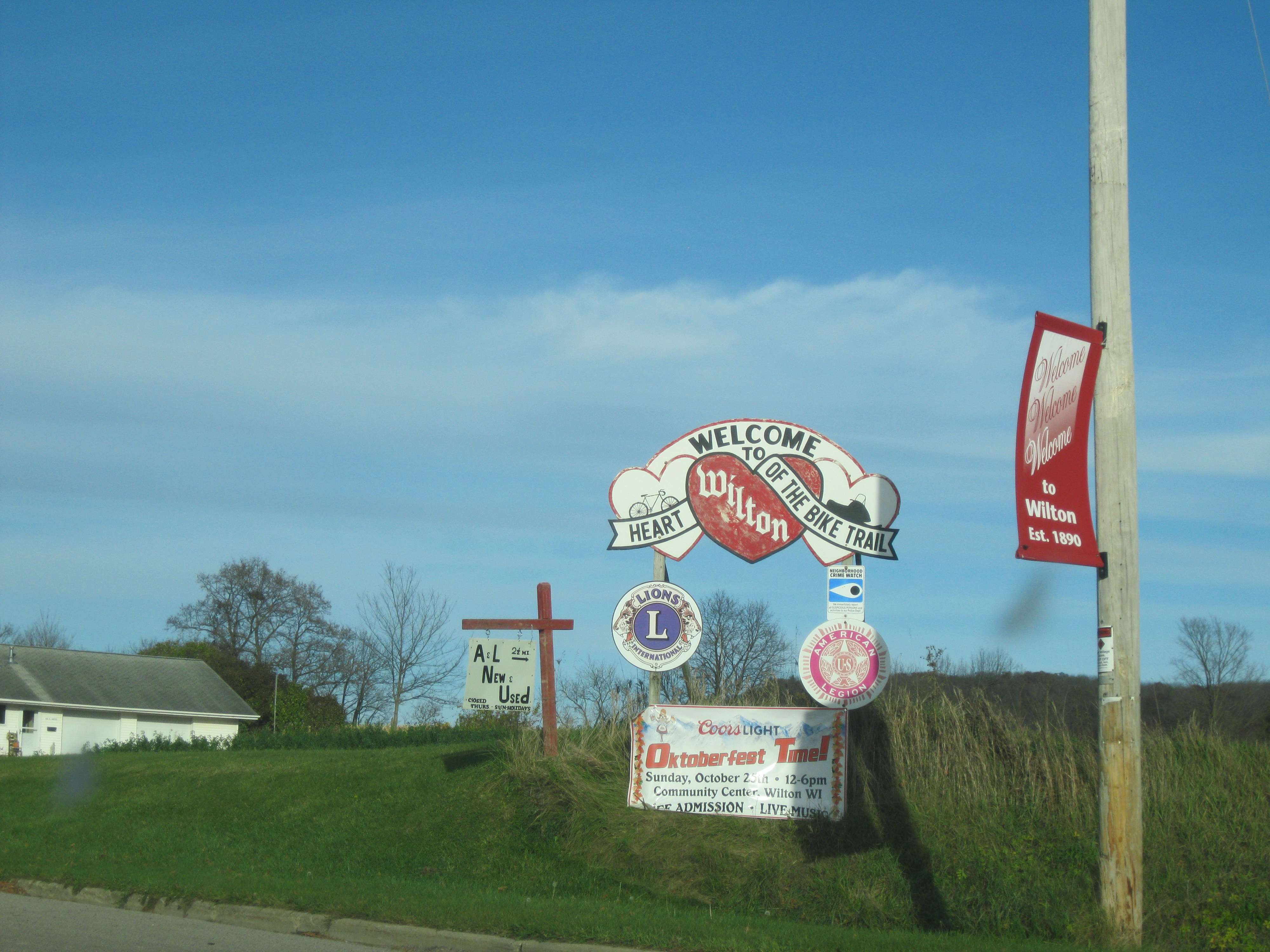 Welcome sign seen when entering Wilton, Wisconsin from the south.